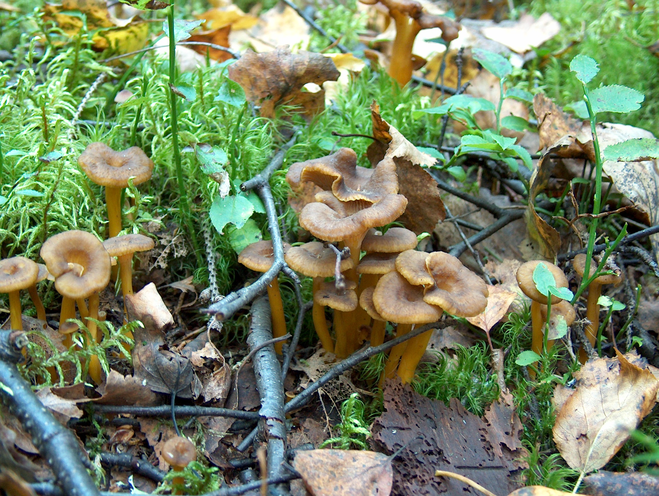 Cantharellus tubaeformis, Trumpet Chanterelle - Kerava, Finland